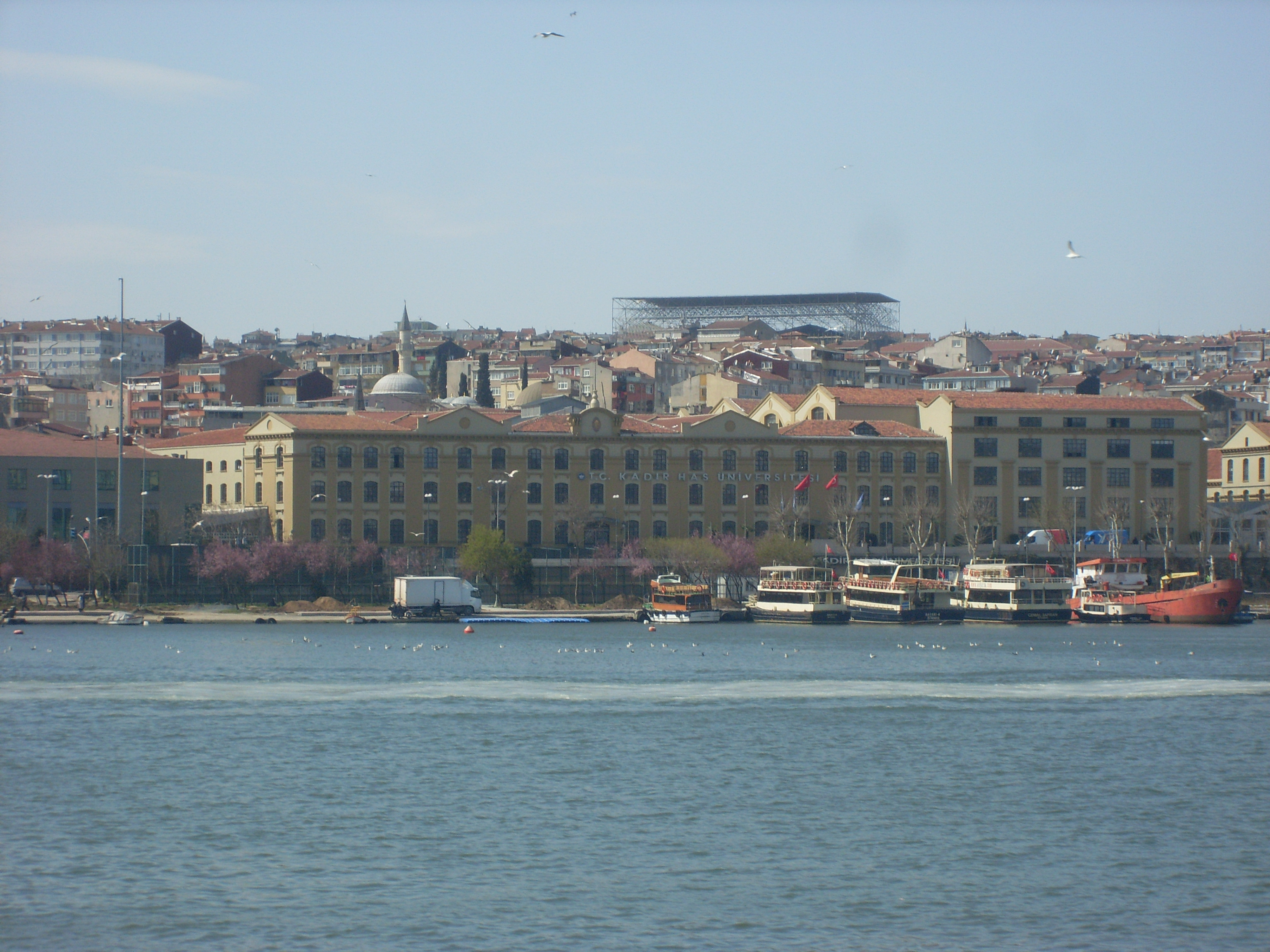 Kadir Has University